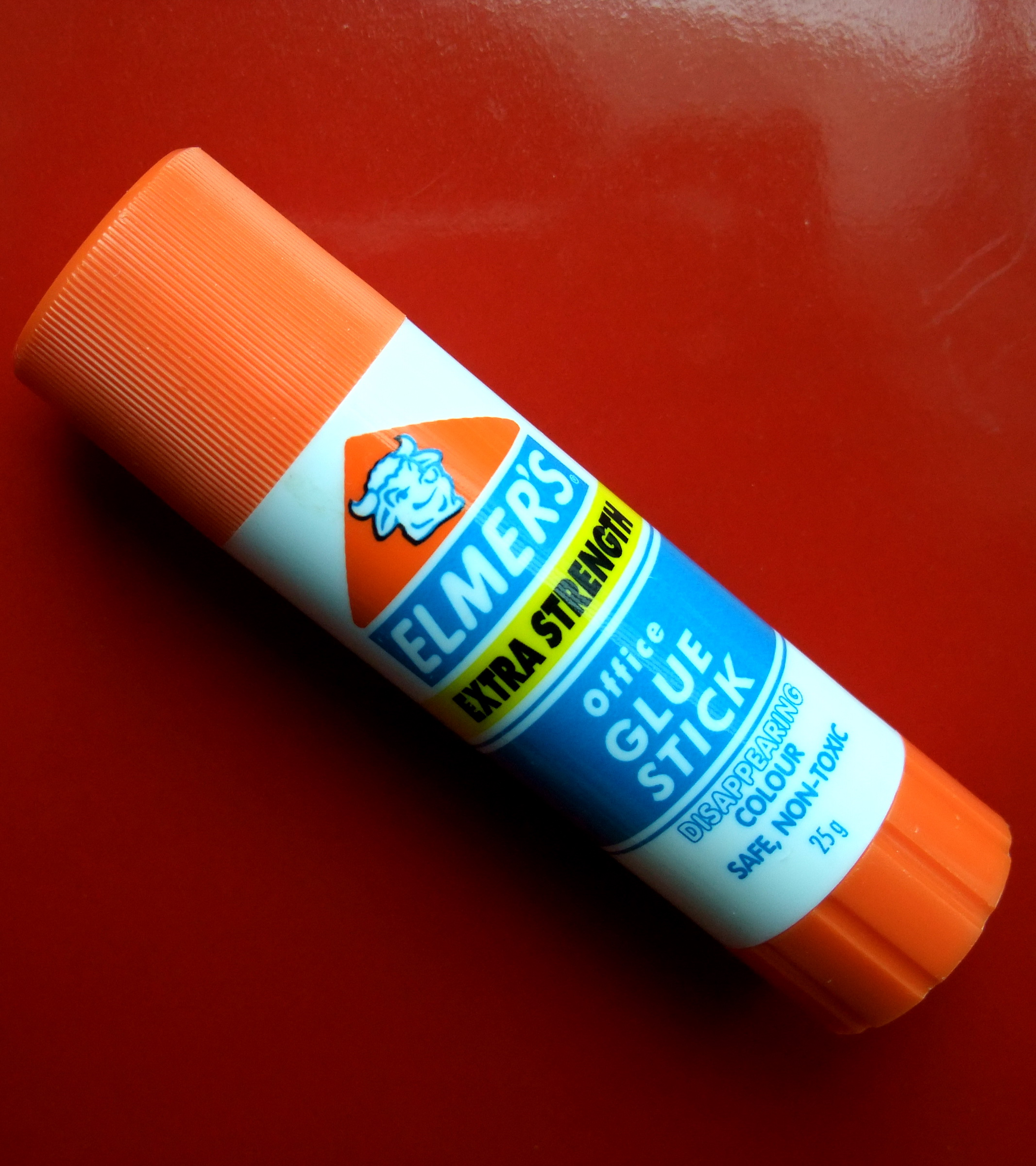 Elmer's office glue stick, 25g.